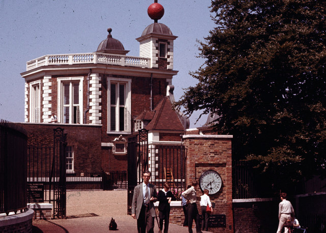 Greenwich Observatory c1960. Site of the Greenwich meridian. Picture scanned from an old slide.